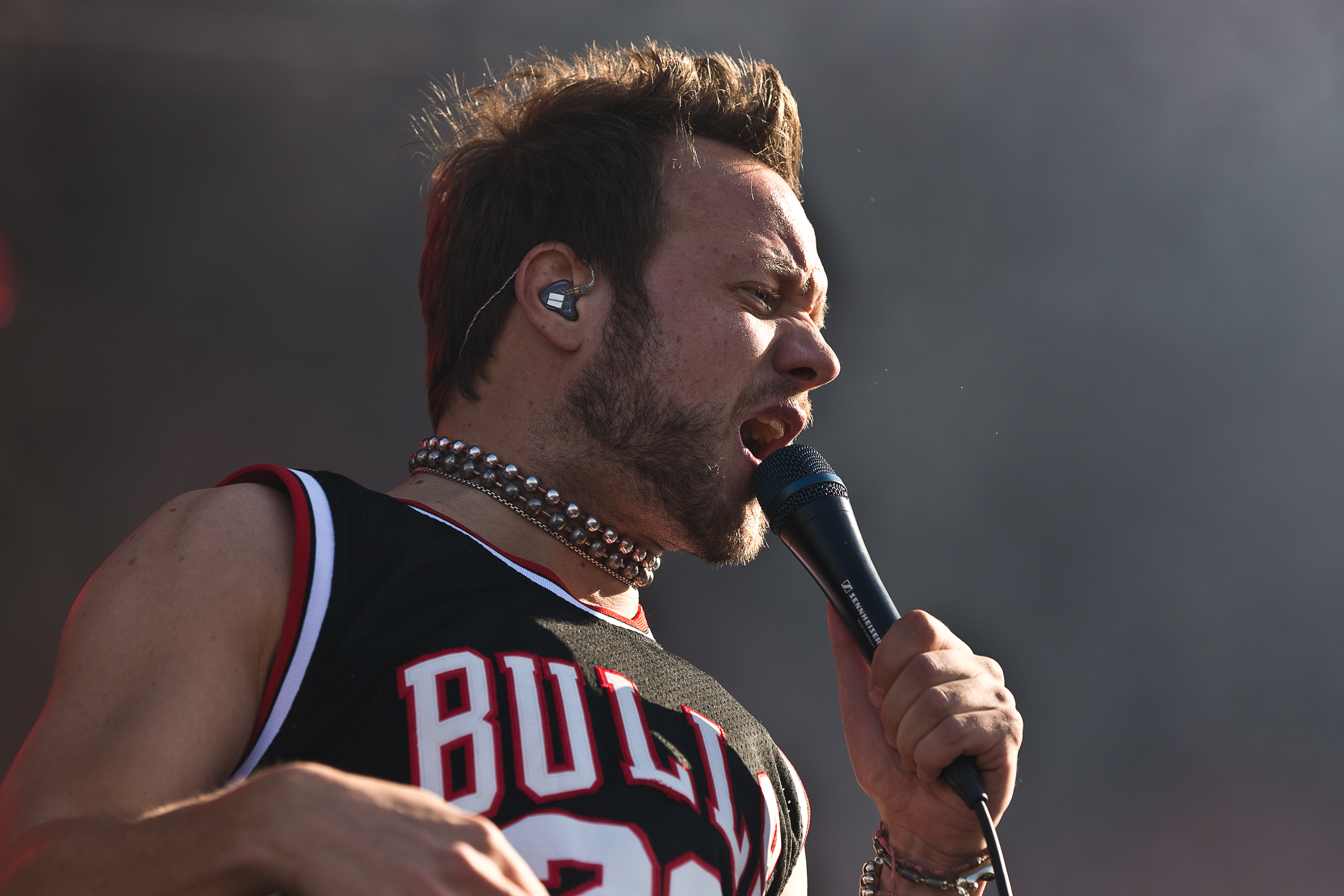 The German alternative metal band Emil Bulls at the Rockharz Open Air 2015 in Ballenstedt/Germany.